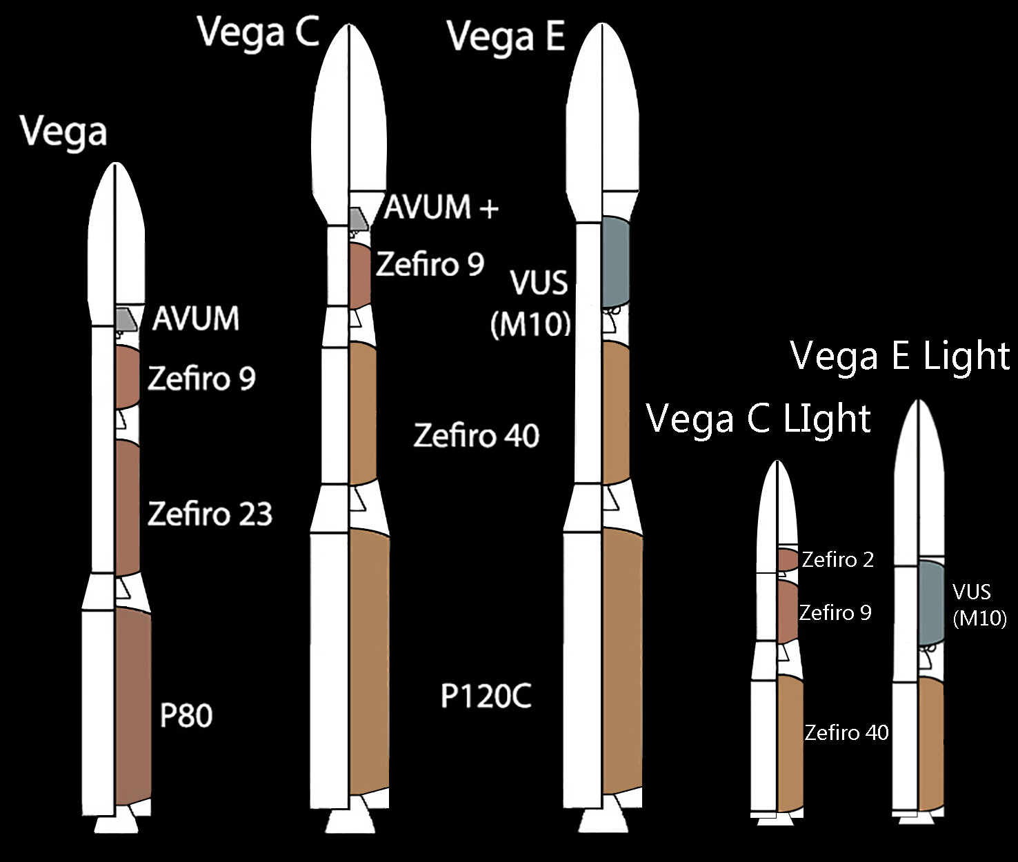 Comparison of the three Vega launchers.